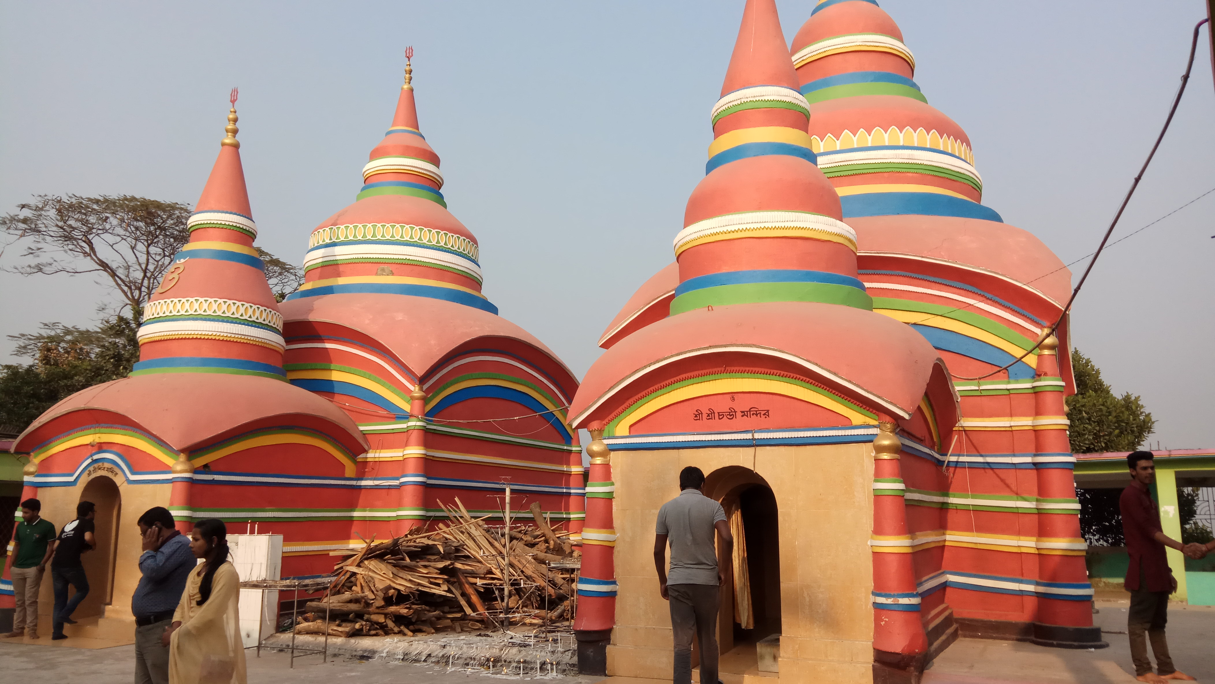 Chondimura temple is located in Lalmai Hill area of the Comilla district of Bangladesh.